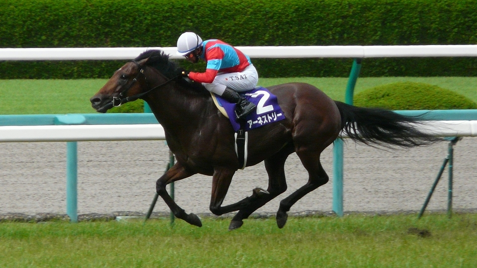 Earnestly20110626(1)